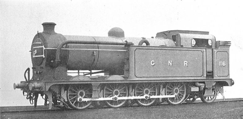 For Duty among the Northern Heights of London. tank Engine for the Great Northern Railway Ivatt GNR L1 0-8-2 tank locomotive